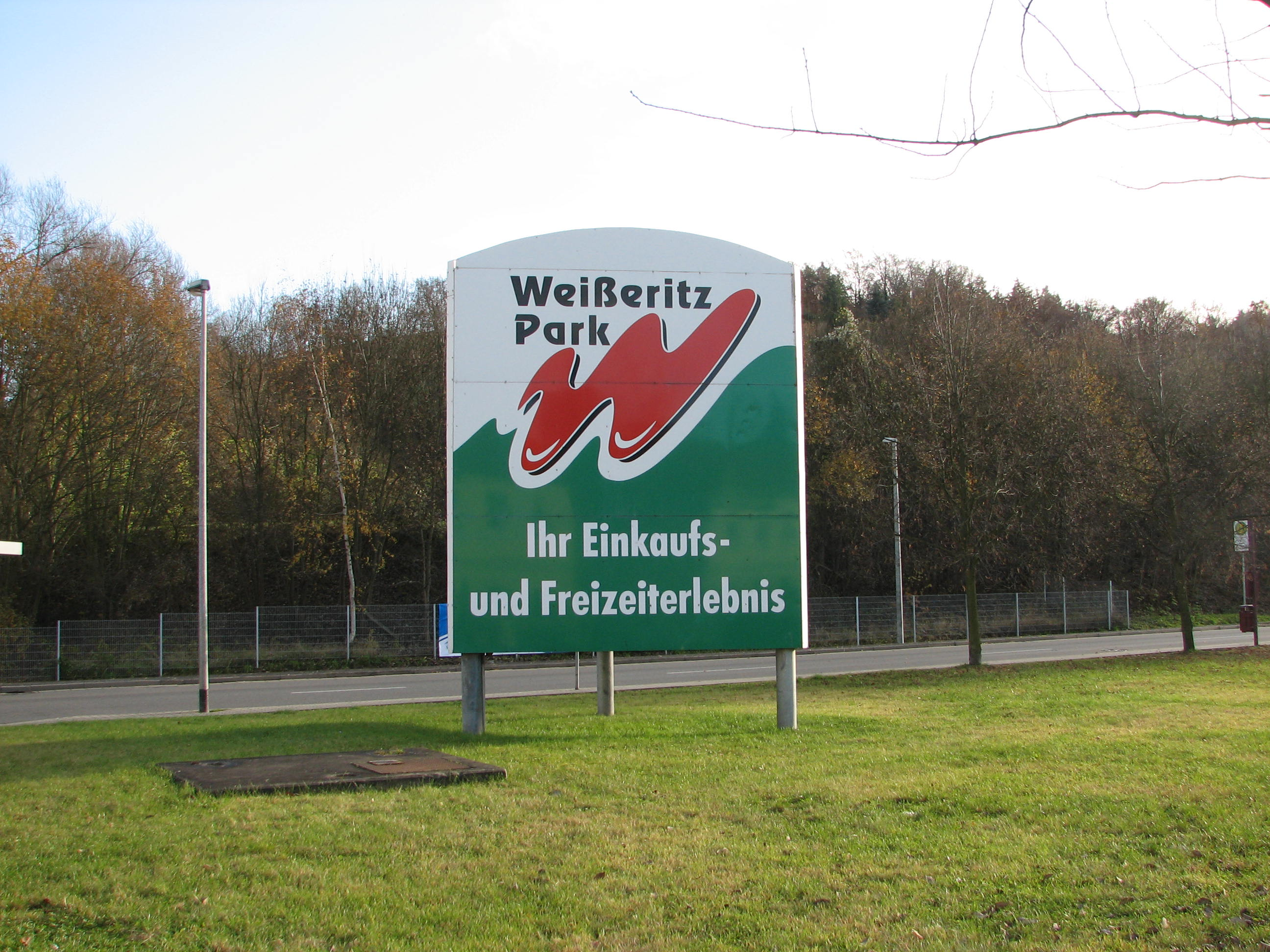 Advertising sign of the Weisseritz-Park in front of the centre.